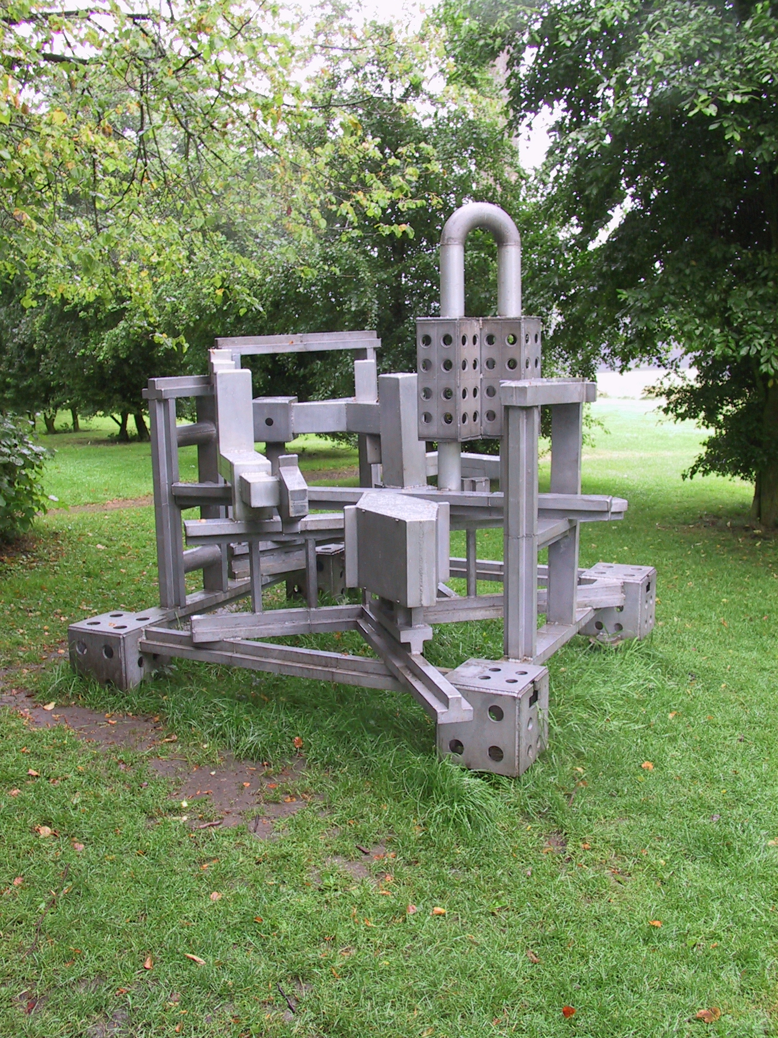 Sculpture by Eduardo Paolozzi in Yorkshire Sculpture Park/ U.K.